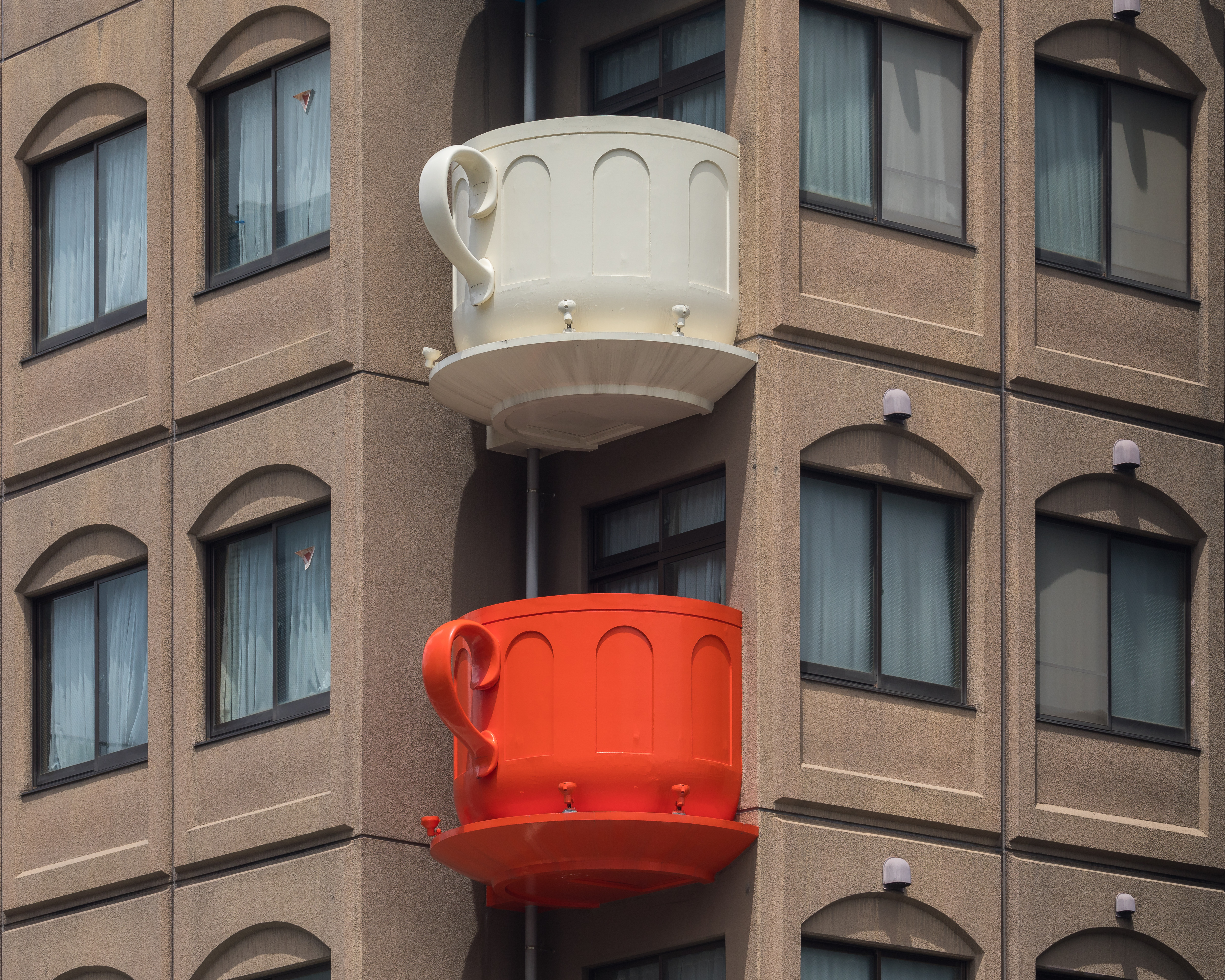 Cream and red coffee cup-shaped balconies, making the facade of the building Niimi Tableware, a wholesale store for restaurant supplies at the South entrance of Kappabashi Dougu Street, Tokyo, Japan.